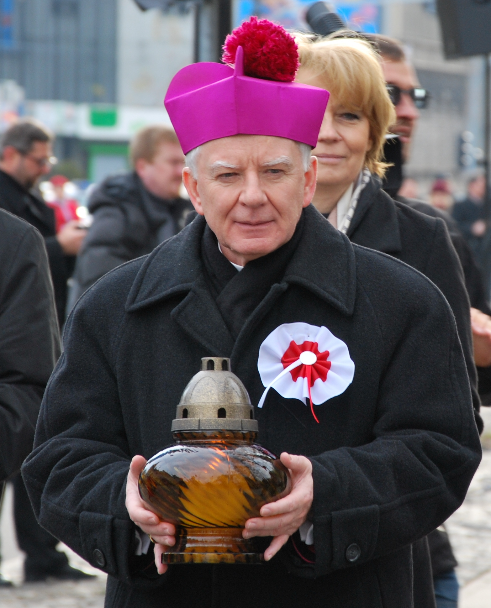 Marek Jędraszewski, archibishop of Łódź